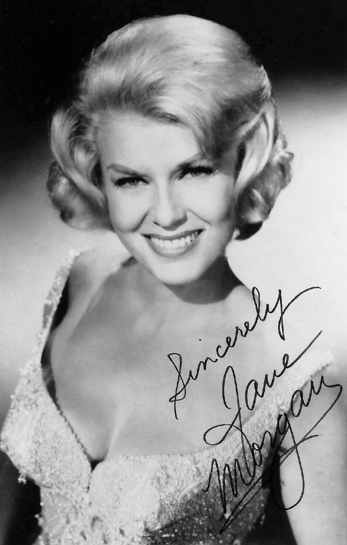 Photo of singer Jane Morgan from an appearance on The Mike Douglas Show. Note that the character shown in front lower left is an asterisk "* The Mike Douglas Show".